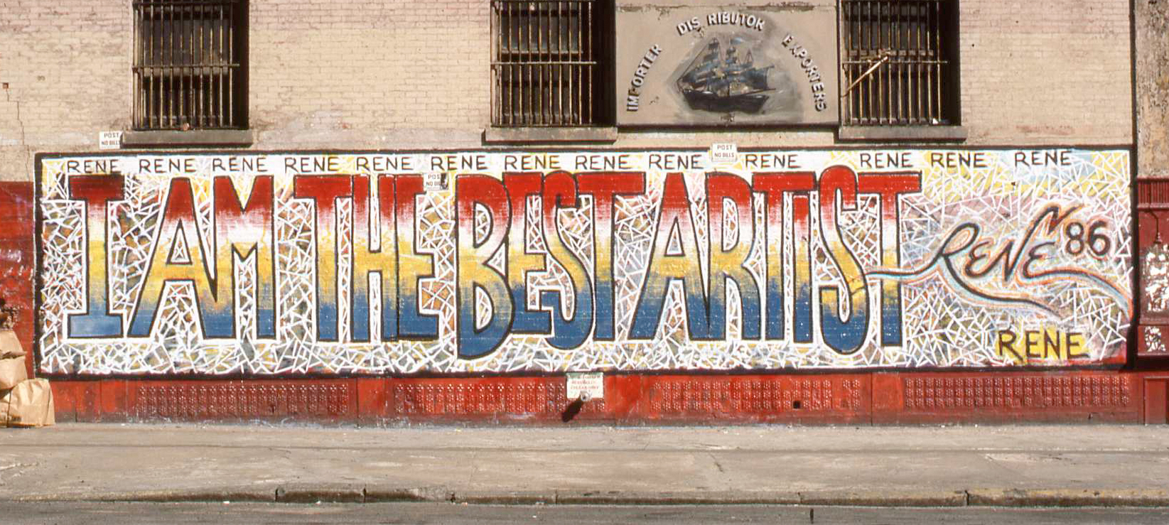 mural by Rene I AM THE BEST ARTIST (Moncada)